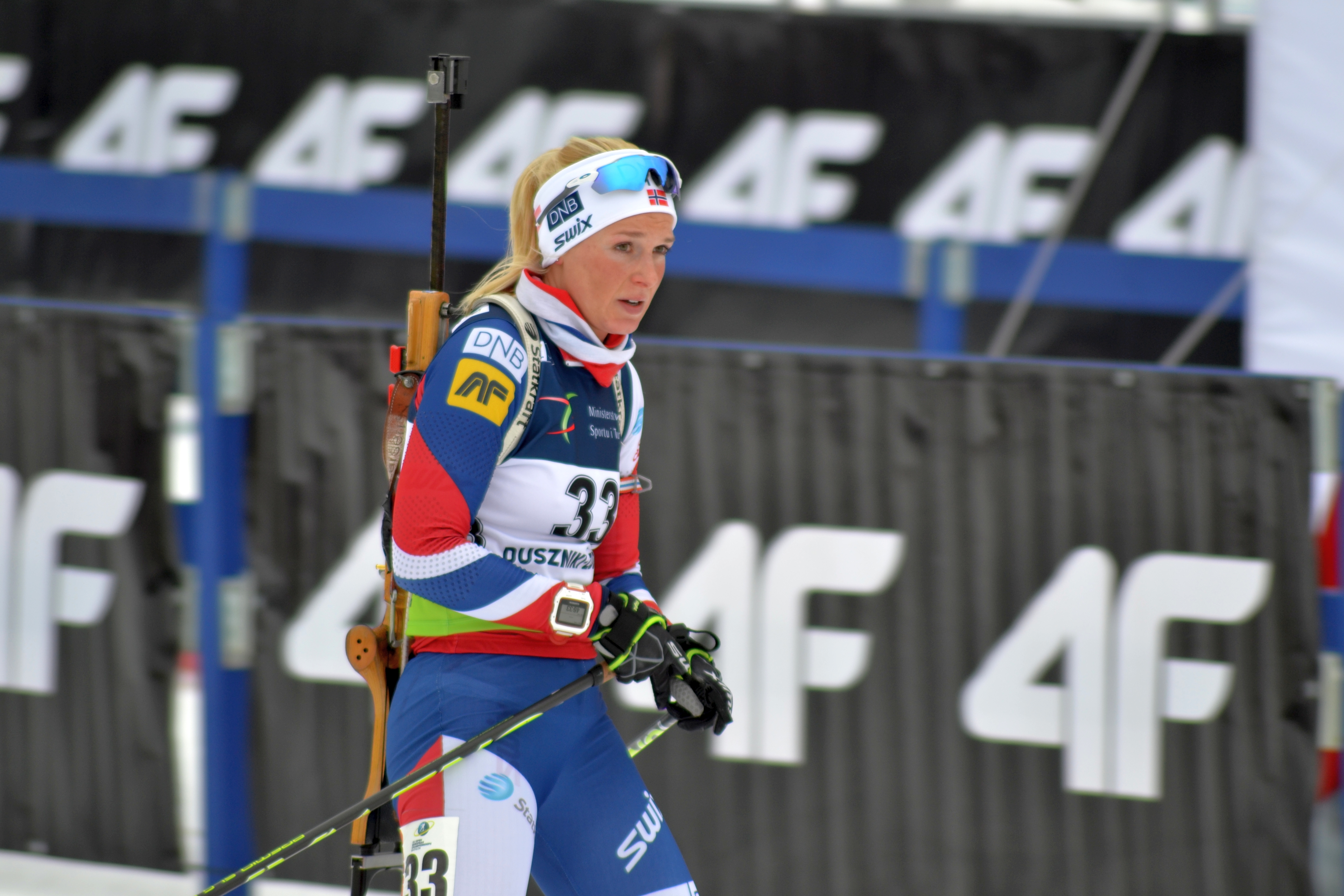 Open European Championships Biathlon 2017, Individual Women's race, held on January 25th.